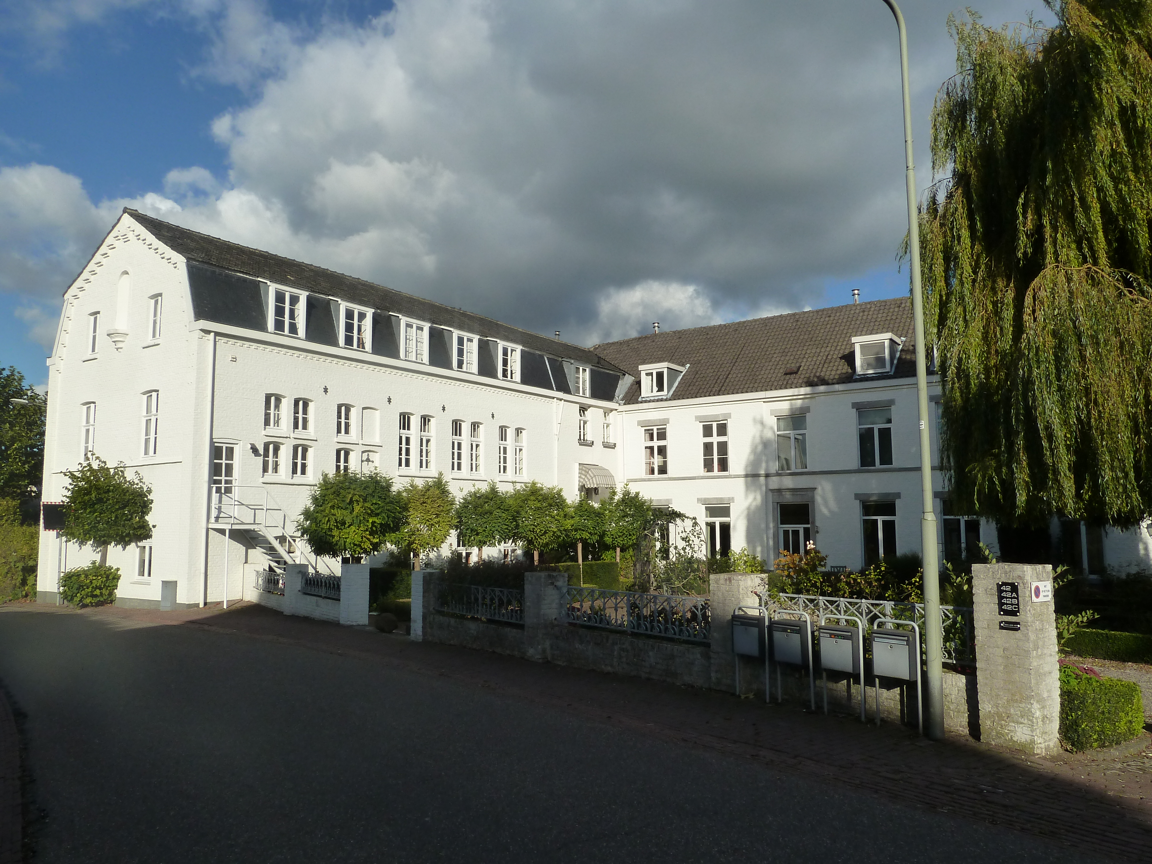 Sint Antoniusbank 42, Bemelen, Limburg, the Netherlands